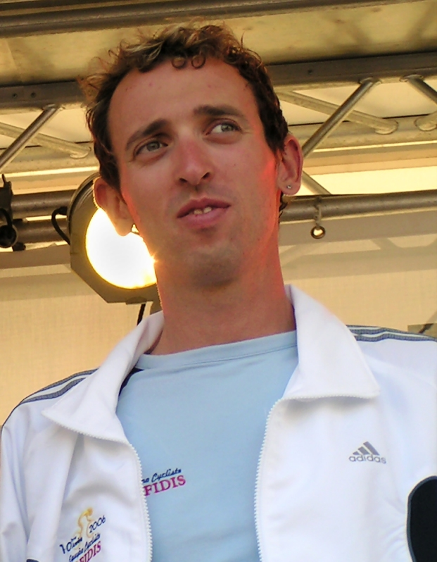 The Italian racing cyclist Leonardo Bertagnolli at the team presentation for the Deutschland Tour 2006 in Düsseldorf, Germany.